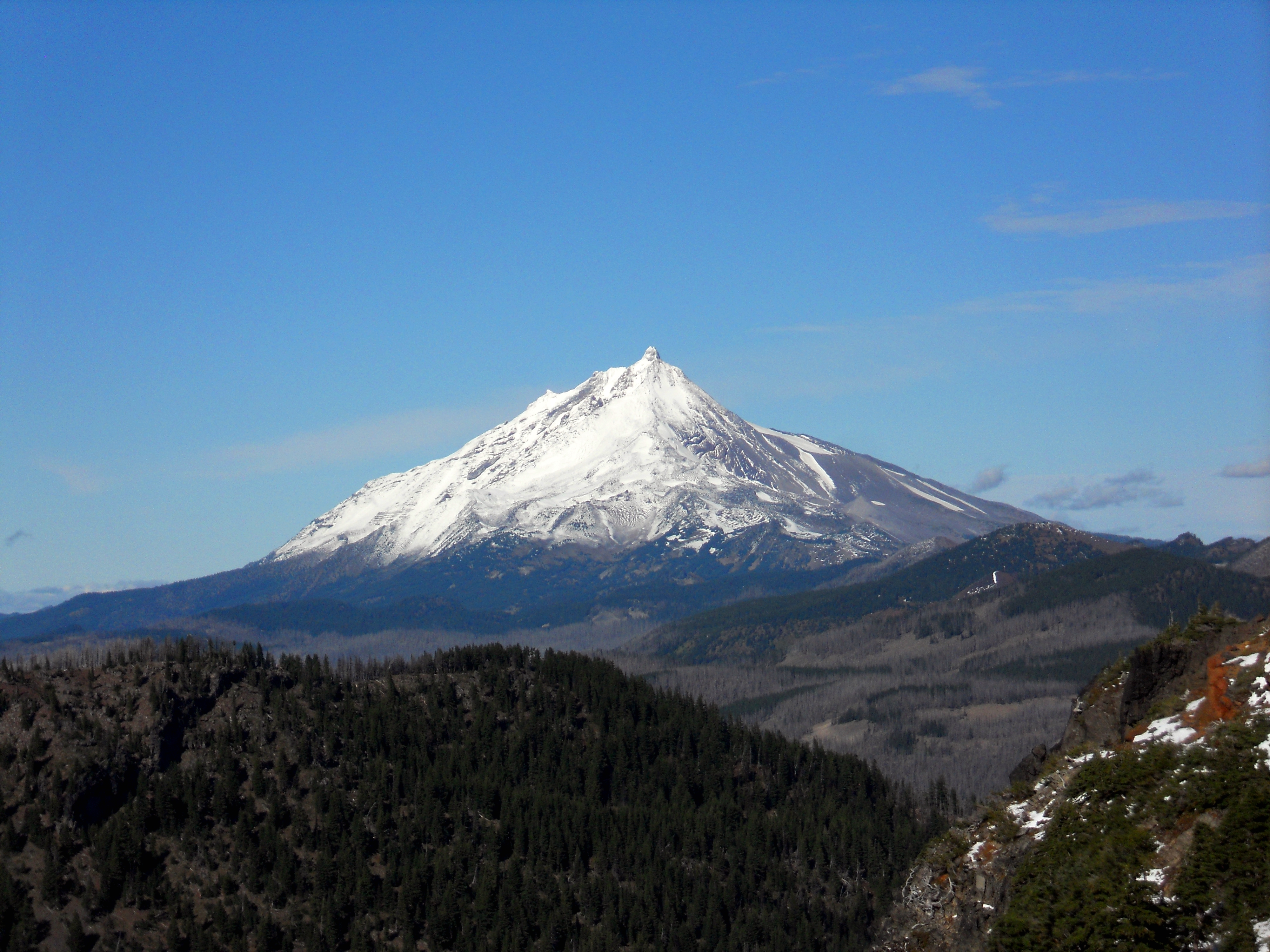 The south face of Mount Jefferson, Oregon's second highest peak, as seen from a trail beside Three Fingered Jack